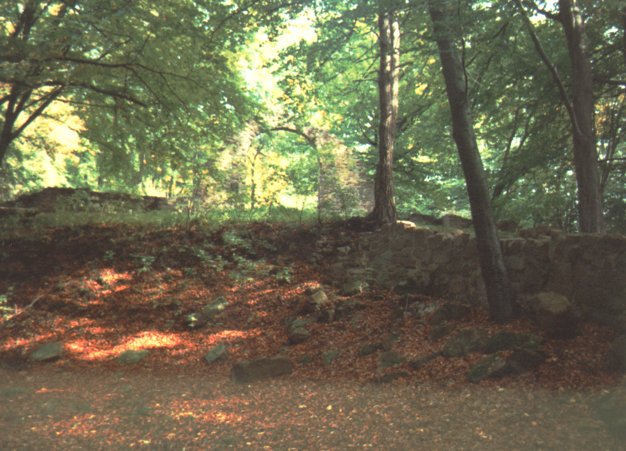 Ruins of Blumenstein castle.